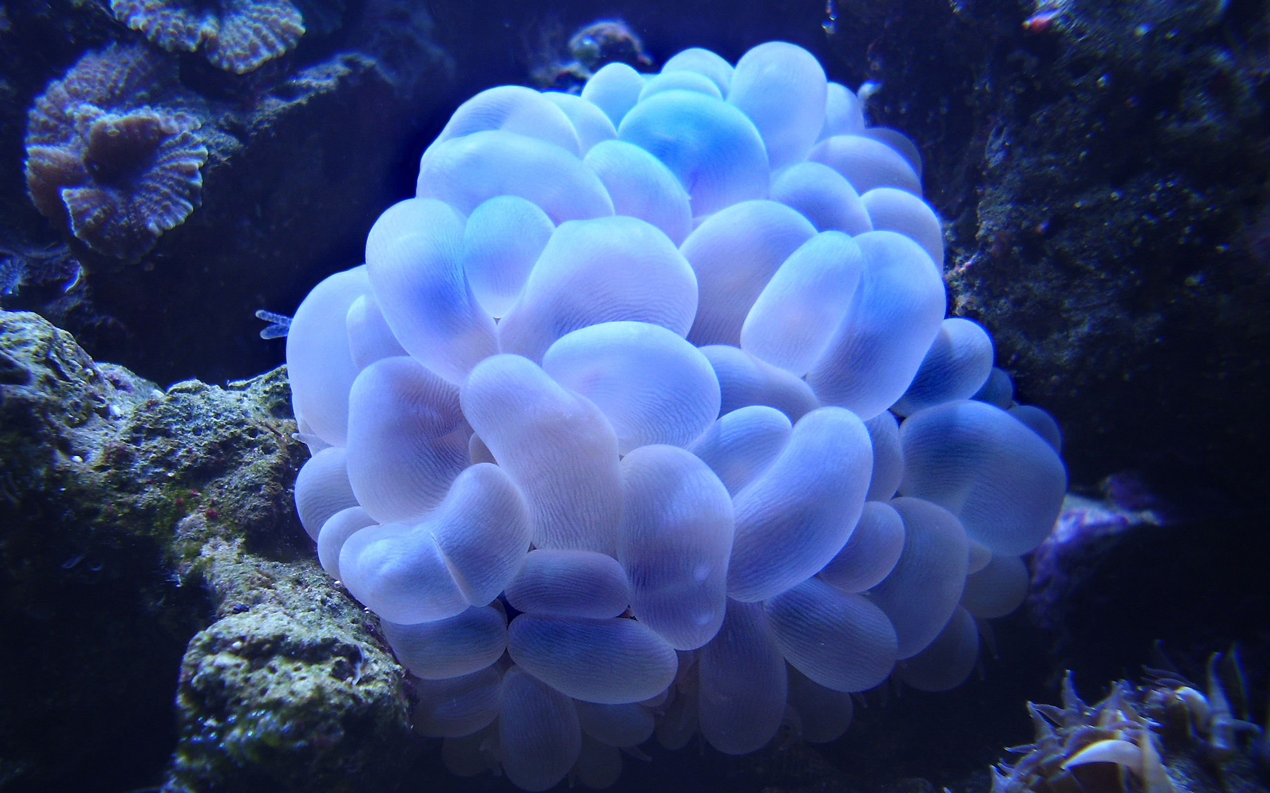 Plerogyra sinuosa (Bubble Coral) under actinic light in aquarium